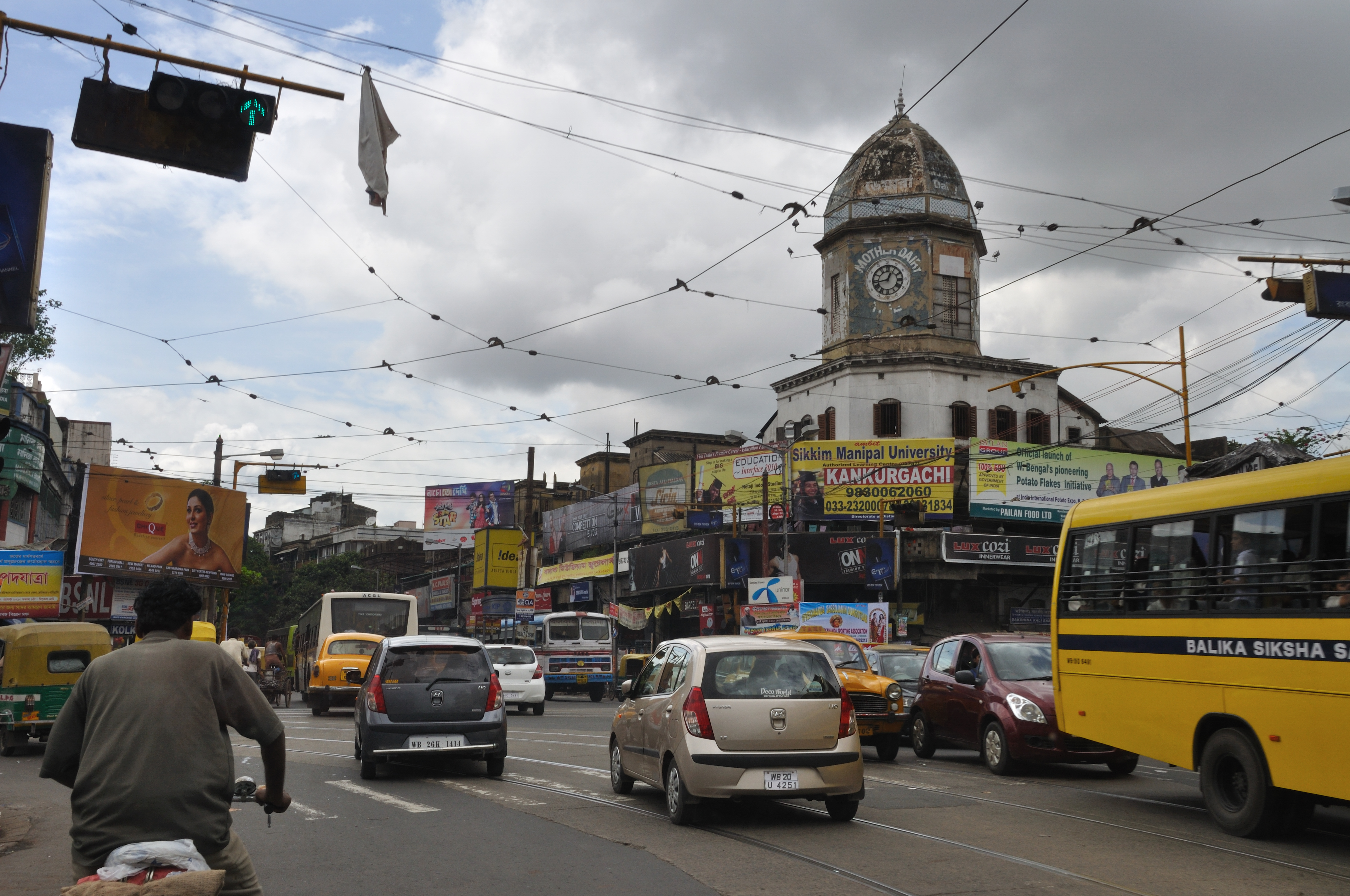 The Maniktala crossing is the intersection of Vivekananda Road (Maniktala Main Road) and Acharya Prafulla Chandra Road — two main thoroughfares in north Kolkata. The adjacent area is known as Maniktala. It is one of oldest markets of Kolkata, the Maniktala Bazar, easily identified by the clock tower. Maniktala Bazaar is famous for its fresh fish.